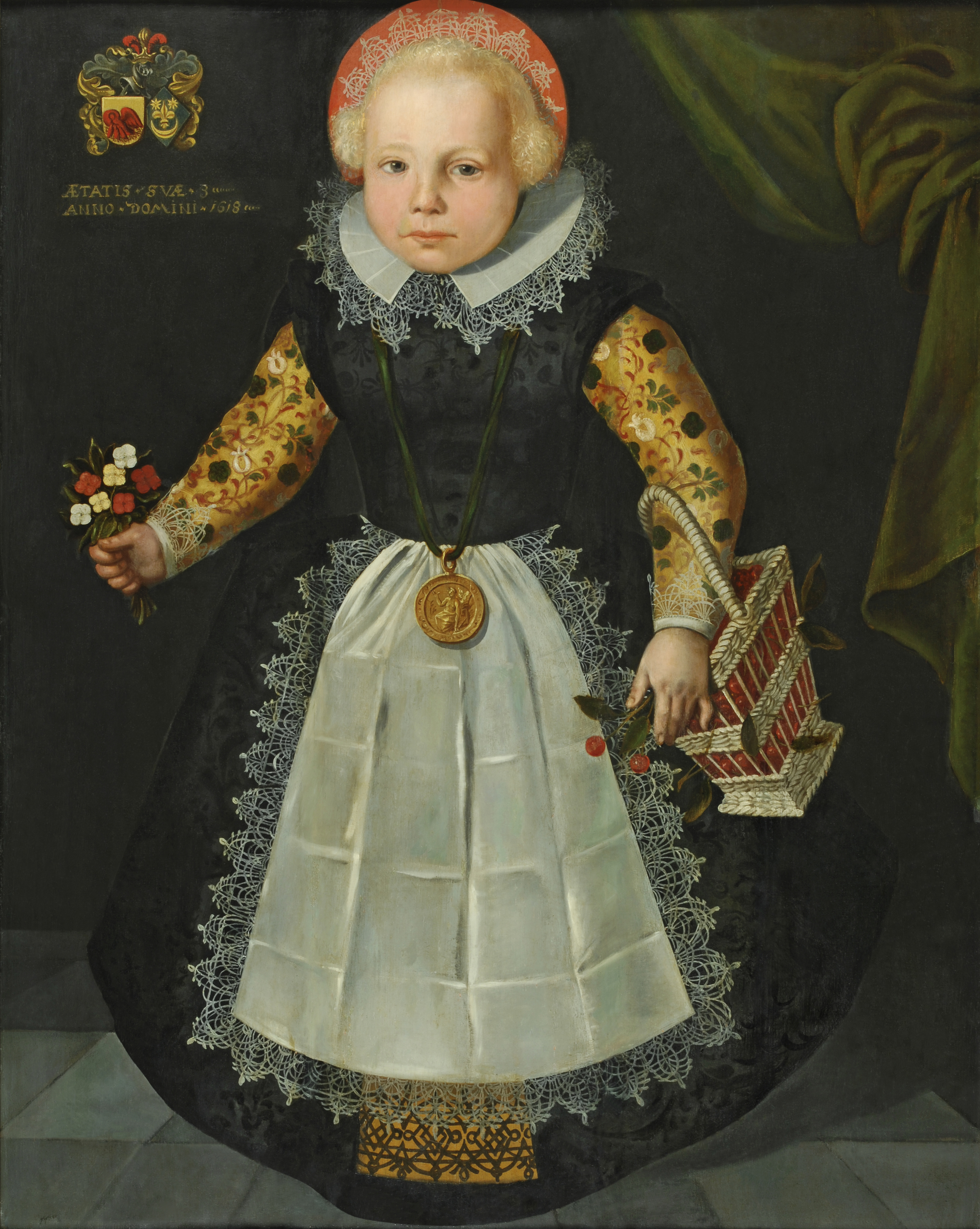 Portrait of Anna van Popma, aged 3.